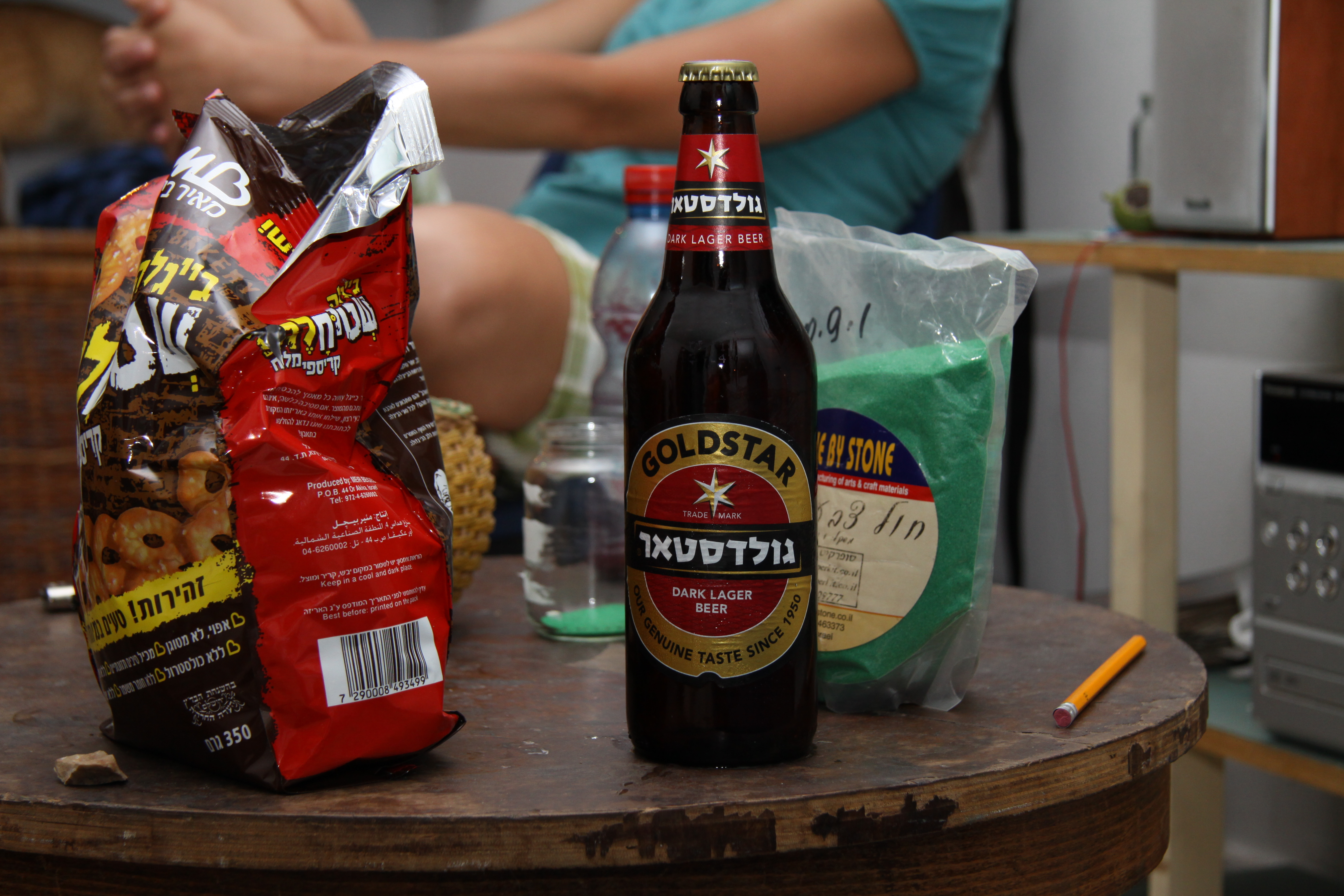 Botle of israelic beer Goldstar